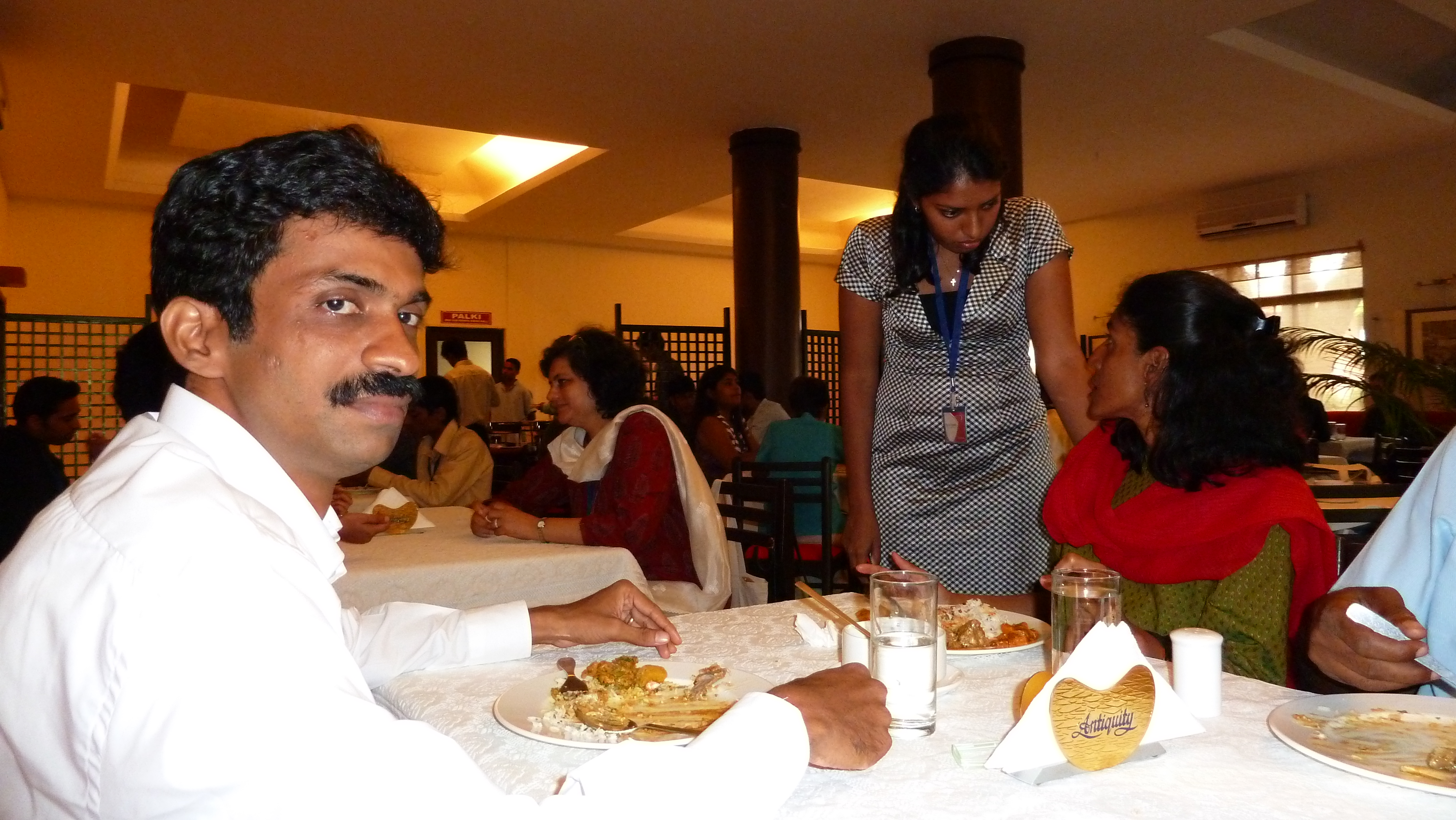 Publishing Next 2011. Organised at the International Centre Goa. Organisers, including Leonard and Quennie, at the event.